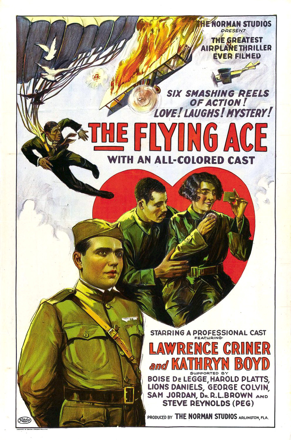 Poster for the 1926 film The Flying Ace. The item has no copyright markings on it as can be seen in the links above. At lower leftt is a logo for the Ritchey Company--they printed the poster and Country of origin and production USA.